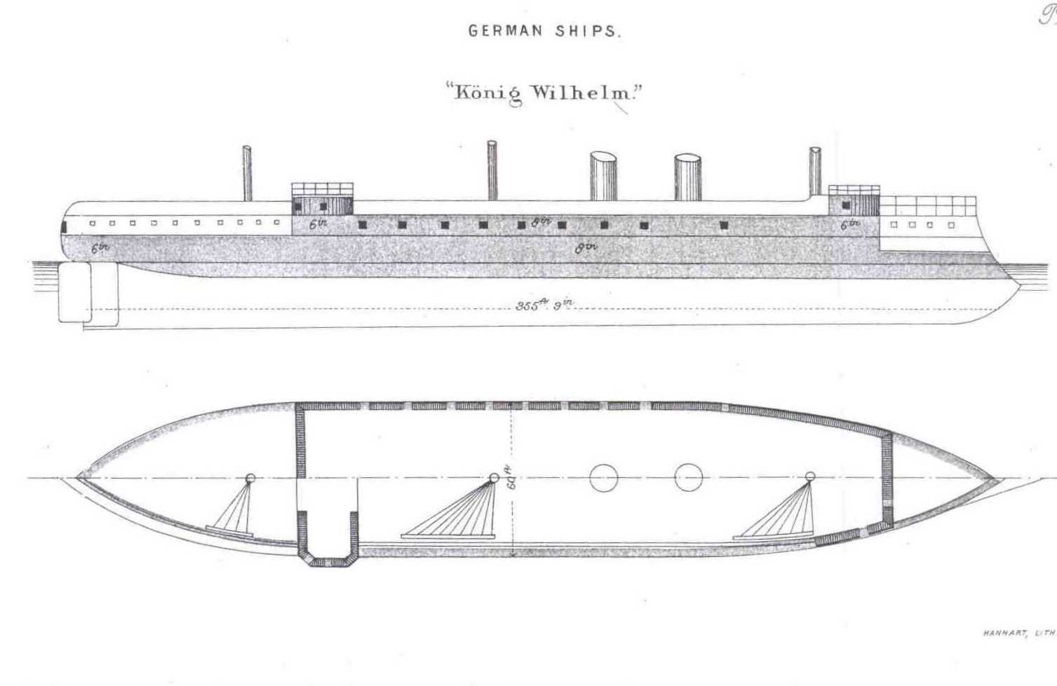 The German Ironclad König Wilhelm, launched 1868, completed in 1869 and in active service until 1904.